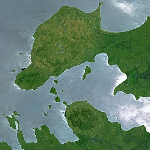 Lake Victoria by SPOT Satellite